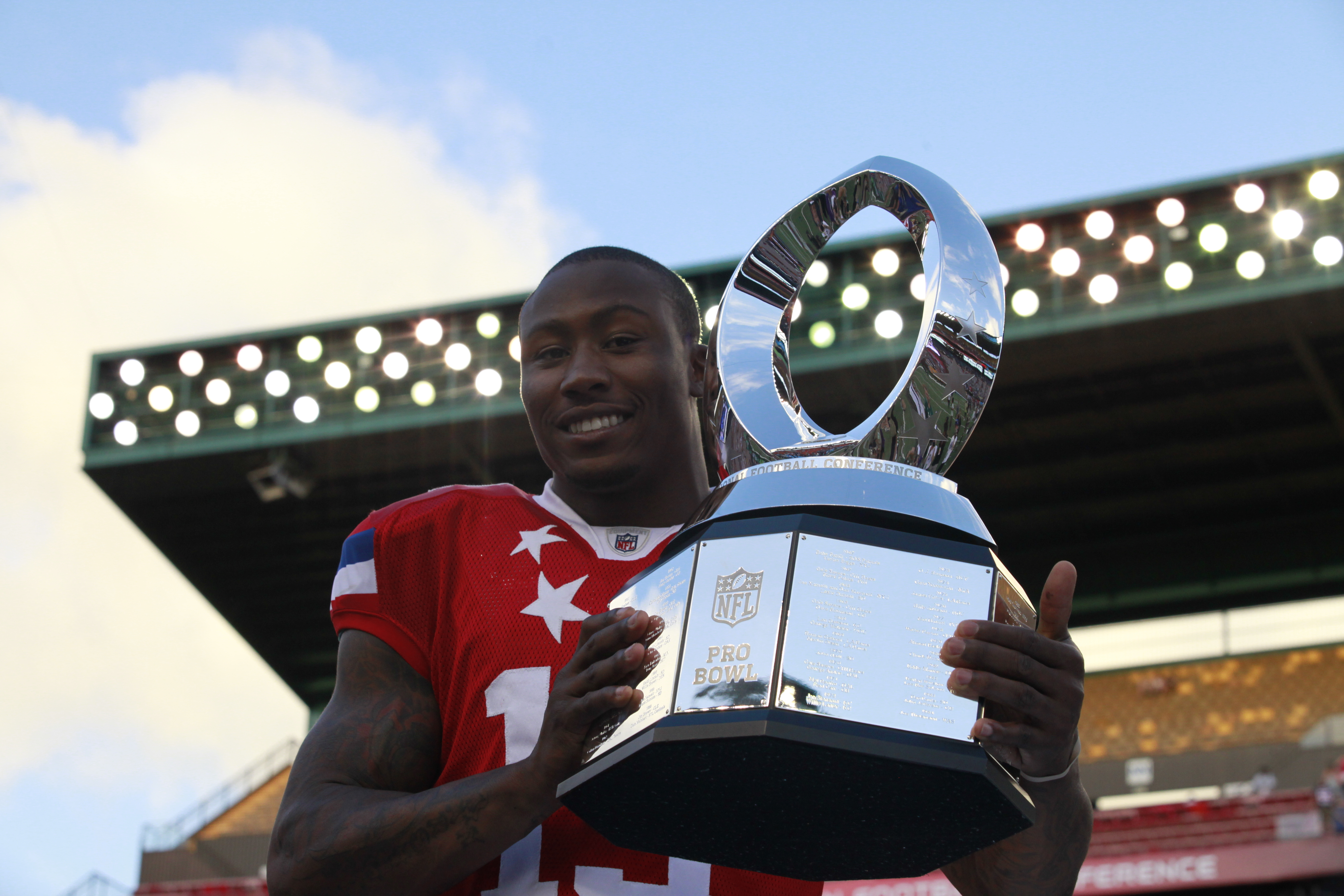 Miami Dolphins football team wide receiver Brandon Marshall receives the National Football League's 2012 Pro Bowl Most Valuable Player trophy at Aloha Stadium in Honolulu Jan. 29, 2012. Marshall set a Pro Bowl record with four touchdown catches during the game.